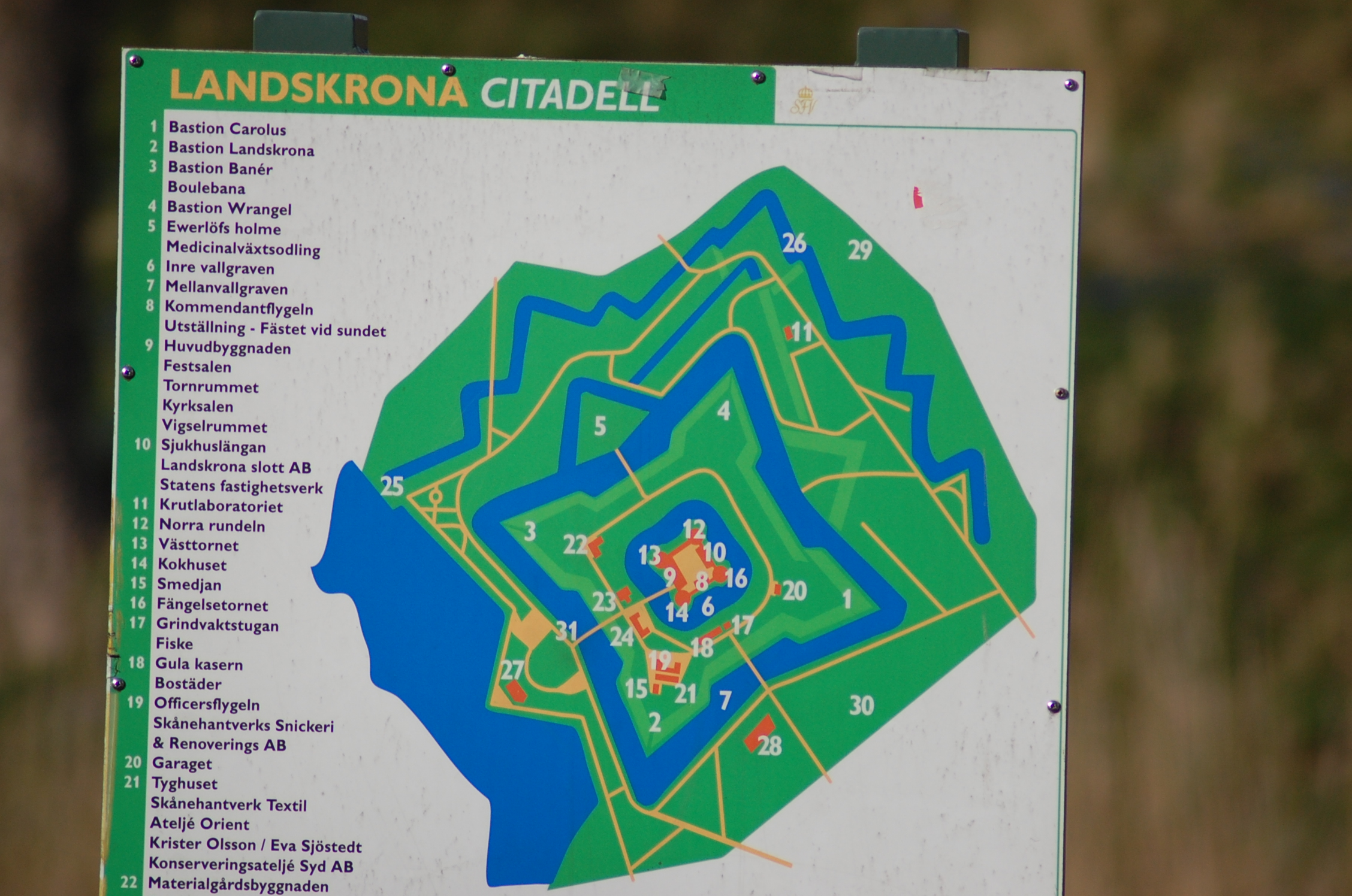 (Overview of Landskrona citadel)